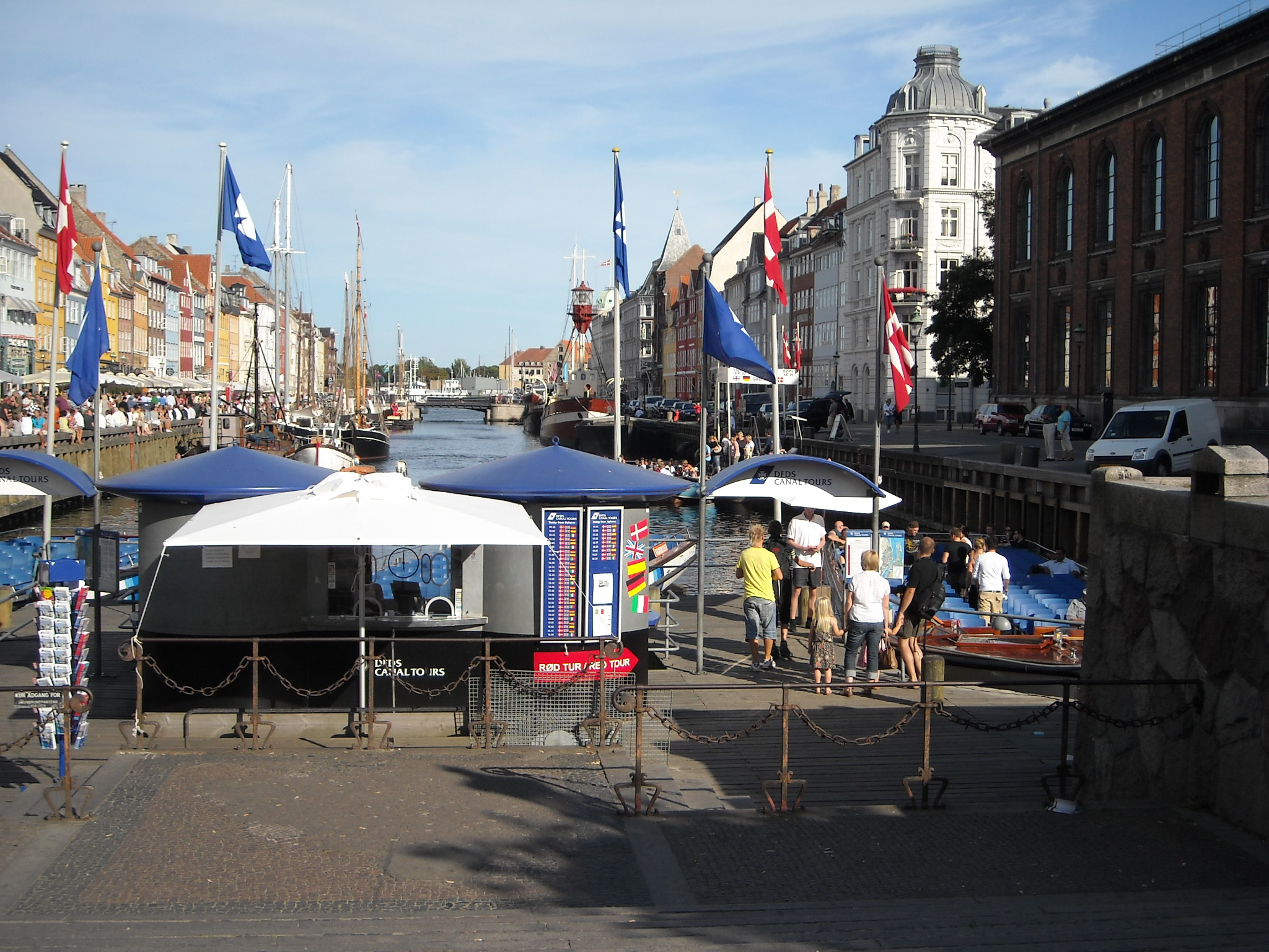 DFDS Canal Tours box office and landing at Nyhavn in Copenhagen, Denmark.